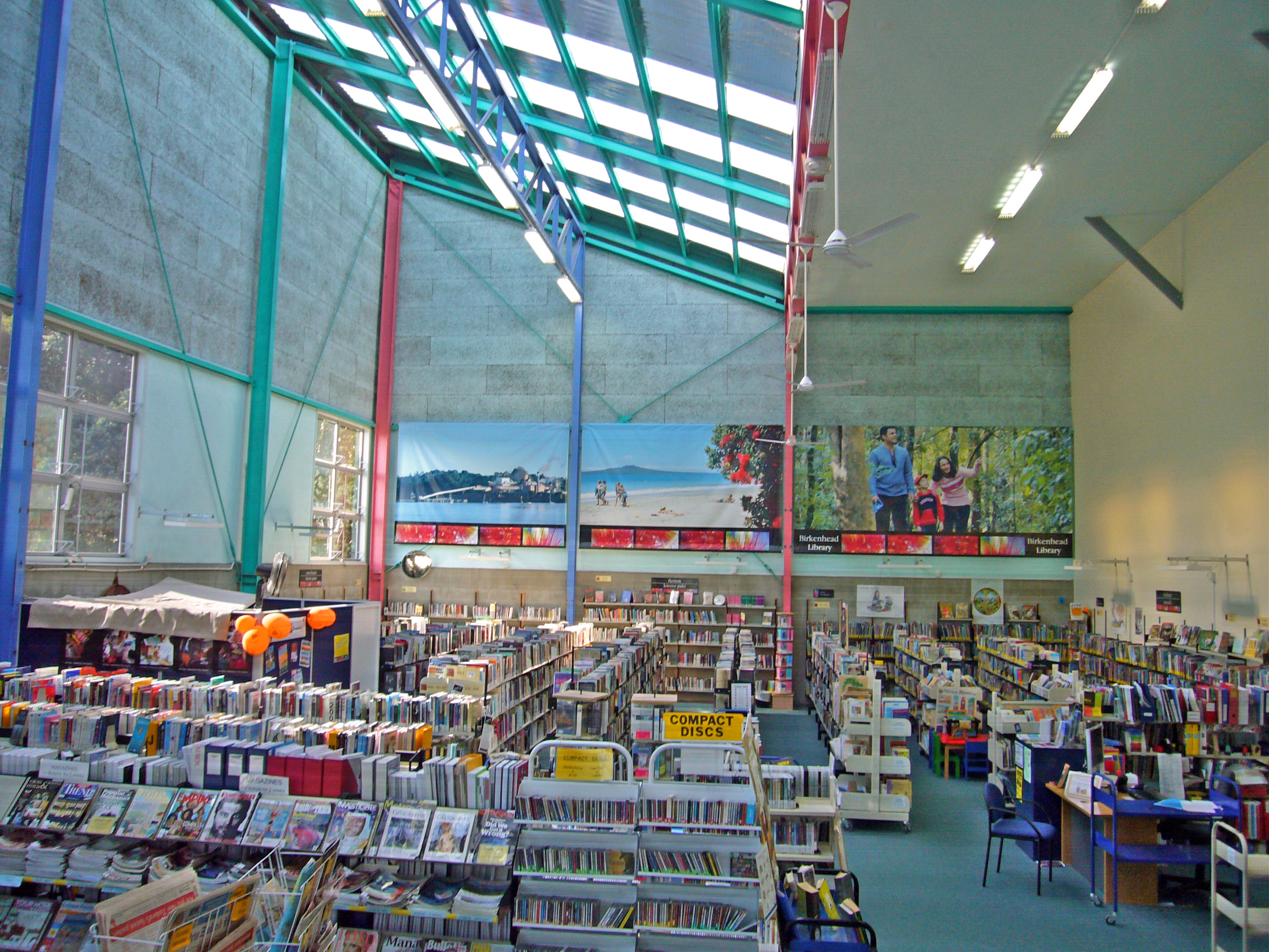 Birkenhead Public Library, North Shore city, New Zealand. Temporary location, converted basketball court. Interior shot, facing southish wall. Manager's office mid-way on east wall; Reference desk opposite. Children's section in southwest corner.